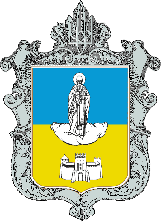 Coat of Arms of Lutsk (Ukraine)